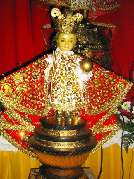 Santo Niño de Cebu, Patron of the CNJP School System